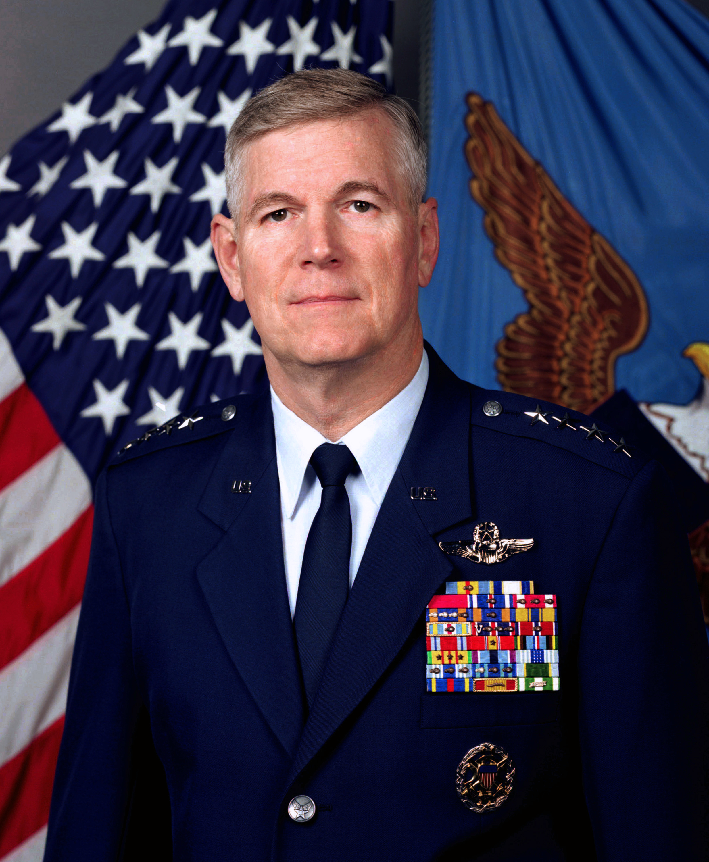 General Richard Myers, former Chairman of the Joint Chiefs of Staff.